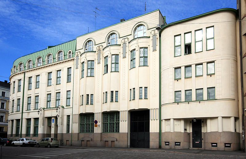 Kasarmikatu 30-32, Helsinki, Finland. Architect: Selim A. Lindqvist. Built 1909.